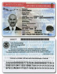 Employment Authorization Document (EAD) 2011 version